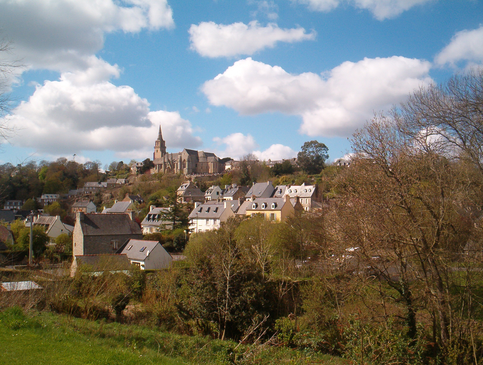 A view of Lannion, including Brélévénez